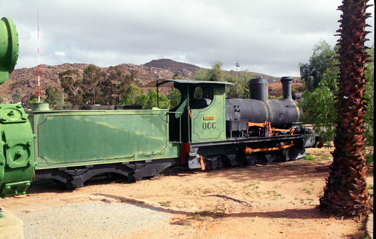 O'okiep Copper Company 0-6-2 Clara Class no. 4 "Clara" preserved at the Nababeep Museum